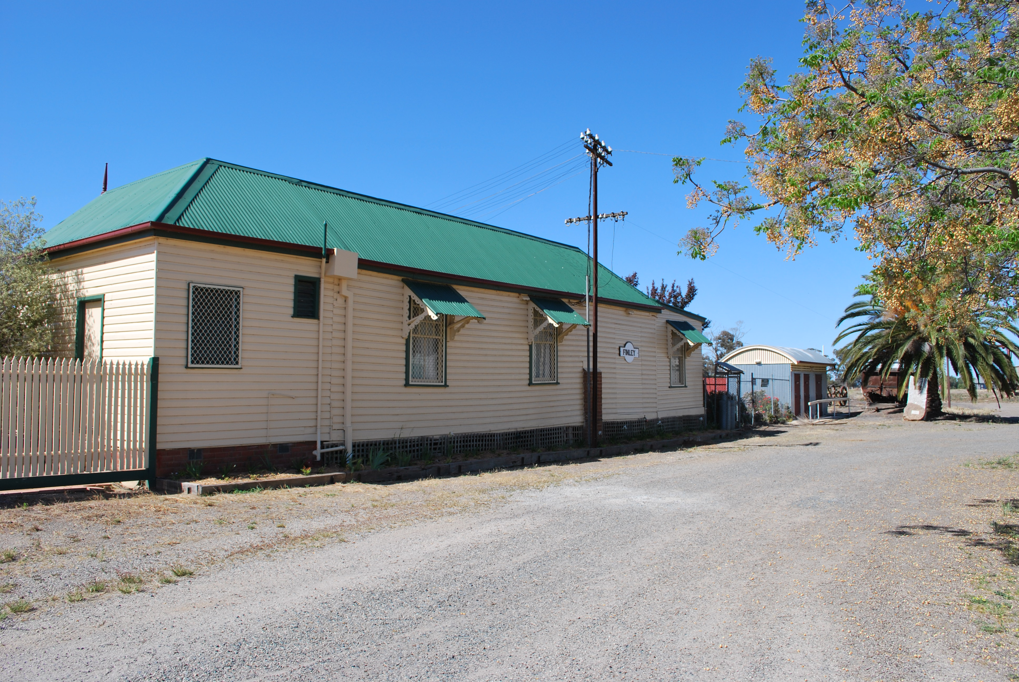 Former train station at Finley, New South Wales, now part of the Finley Pioneer Rail Precinct.